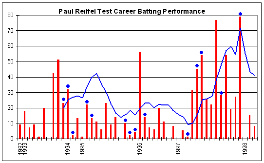 Test batting chart of Paul Reiffel. Red columns are the runs in the innings. Blue dots indicate not outs. Blue line is average in the last ten innings. Thanks to Raven4x4x for providing the template.